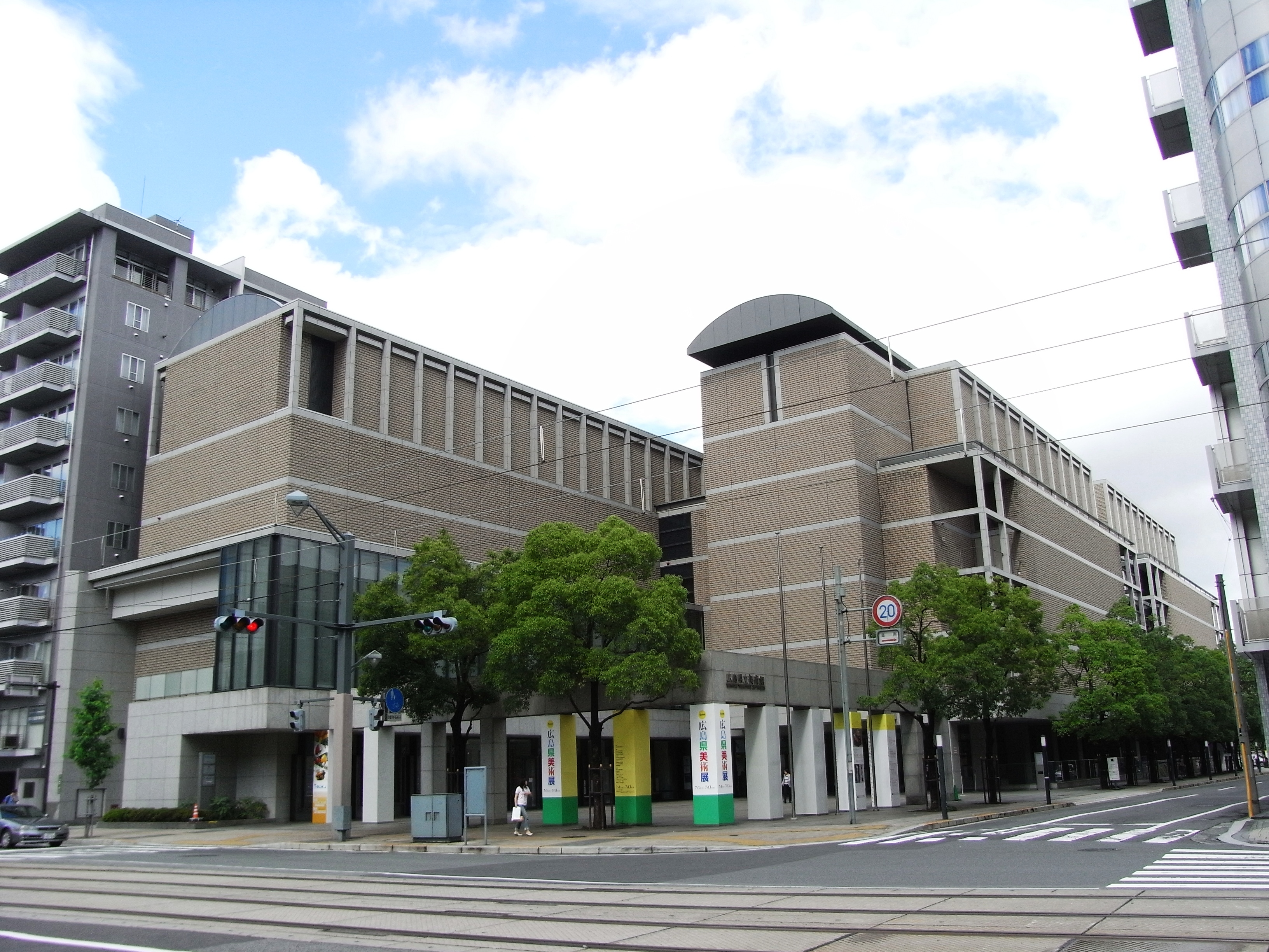 Hiroshima Prefectural Art Museum